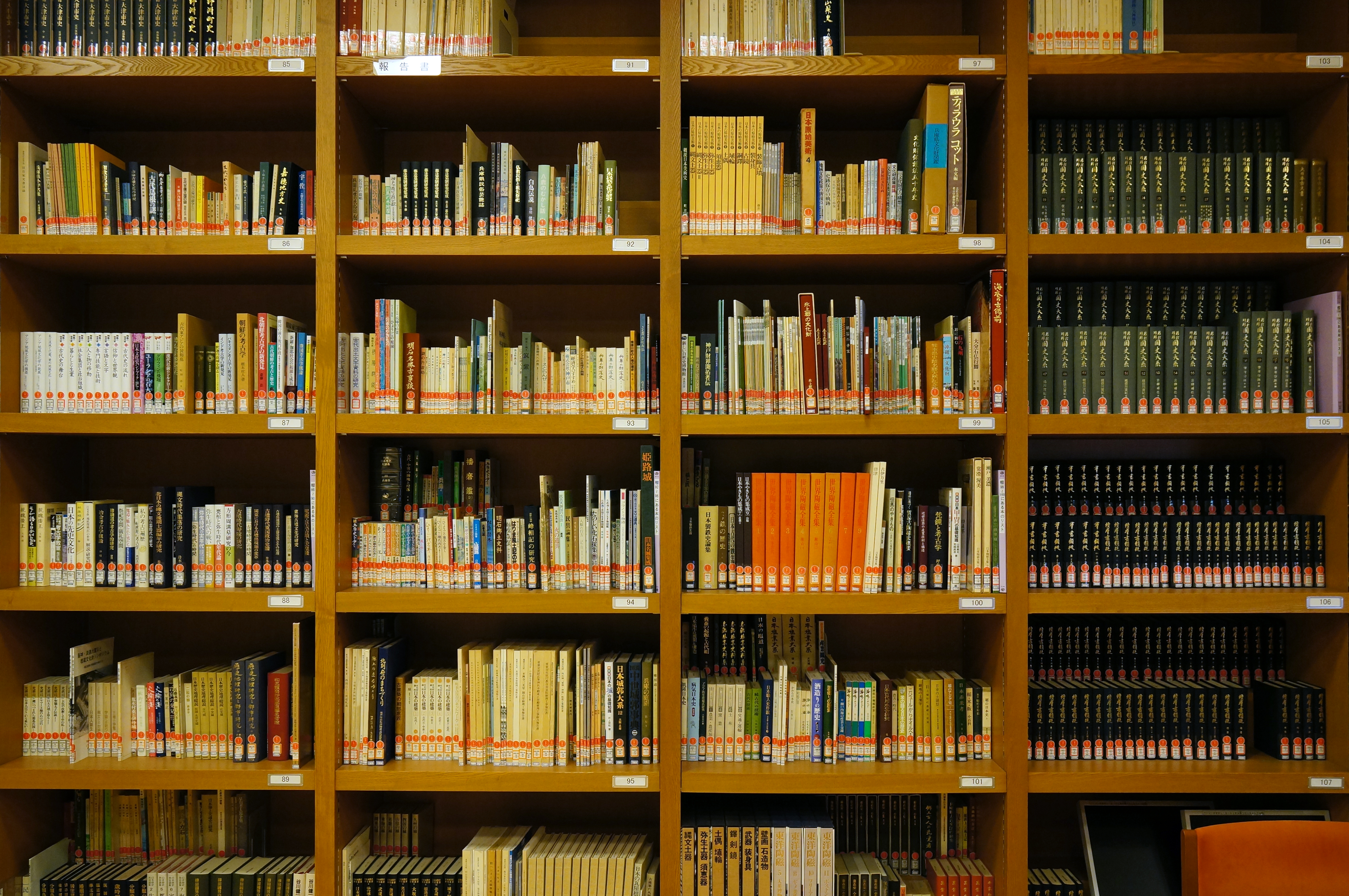 At Hyogo Prefectural Museum of Archaeology in Harima, Hyogo prefecture, Japan.